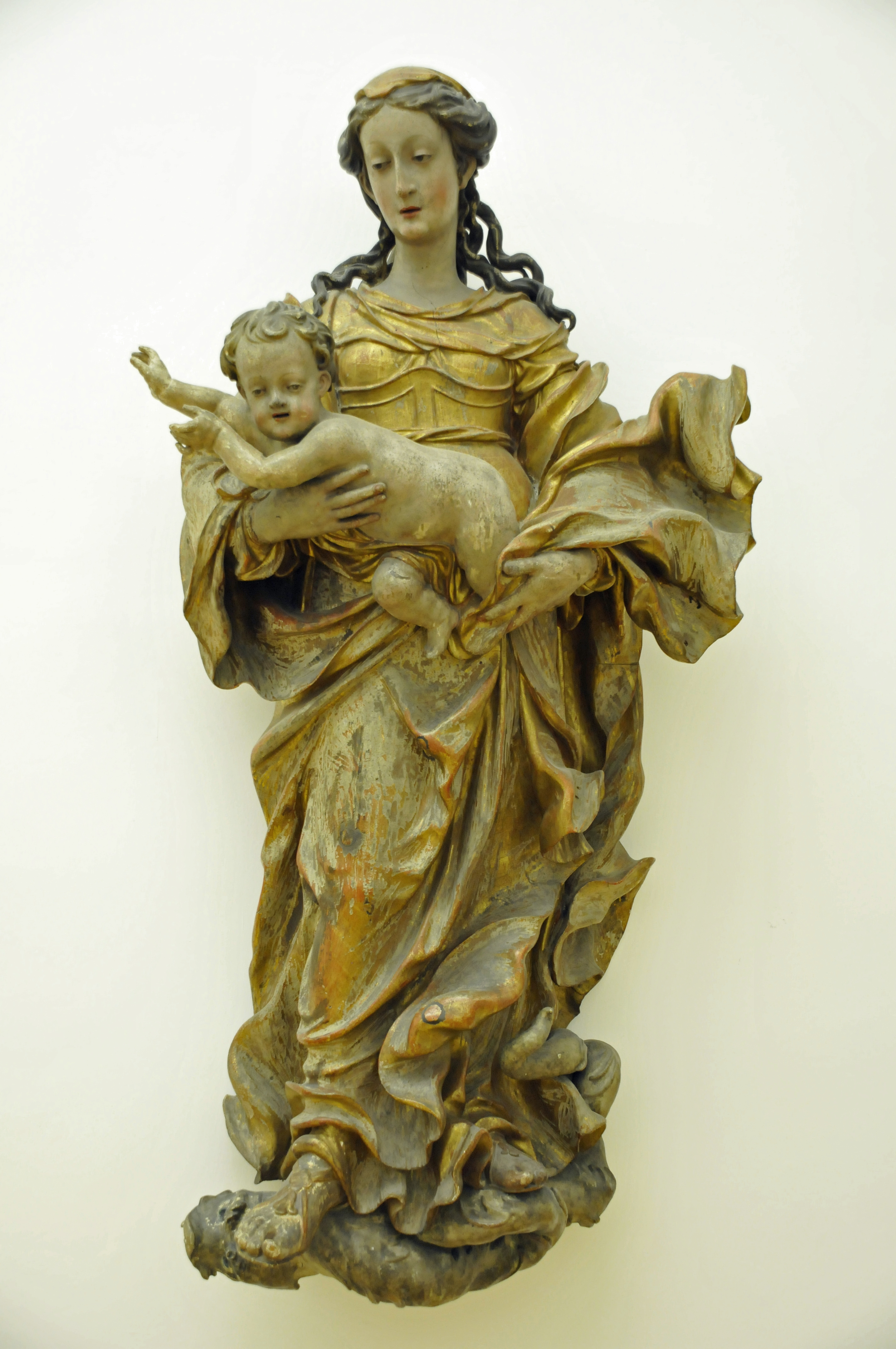 Woodcarved plychome Madonna by Andreas Thamasch in the Museum Ferdinandeum in Innsbruck.